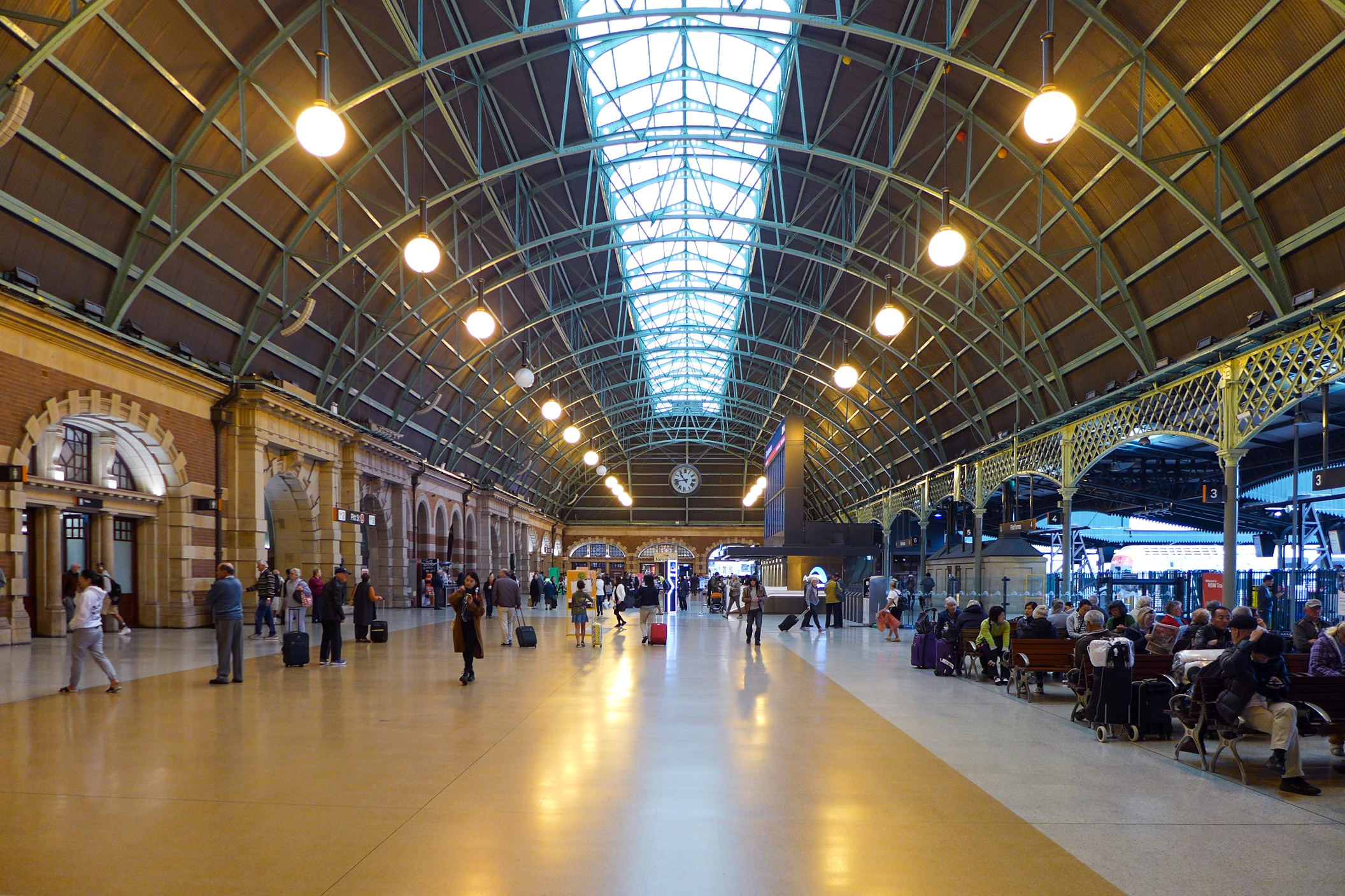 Central railway station Sydney Grand Concourse